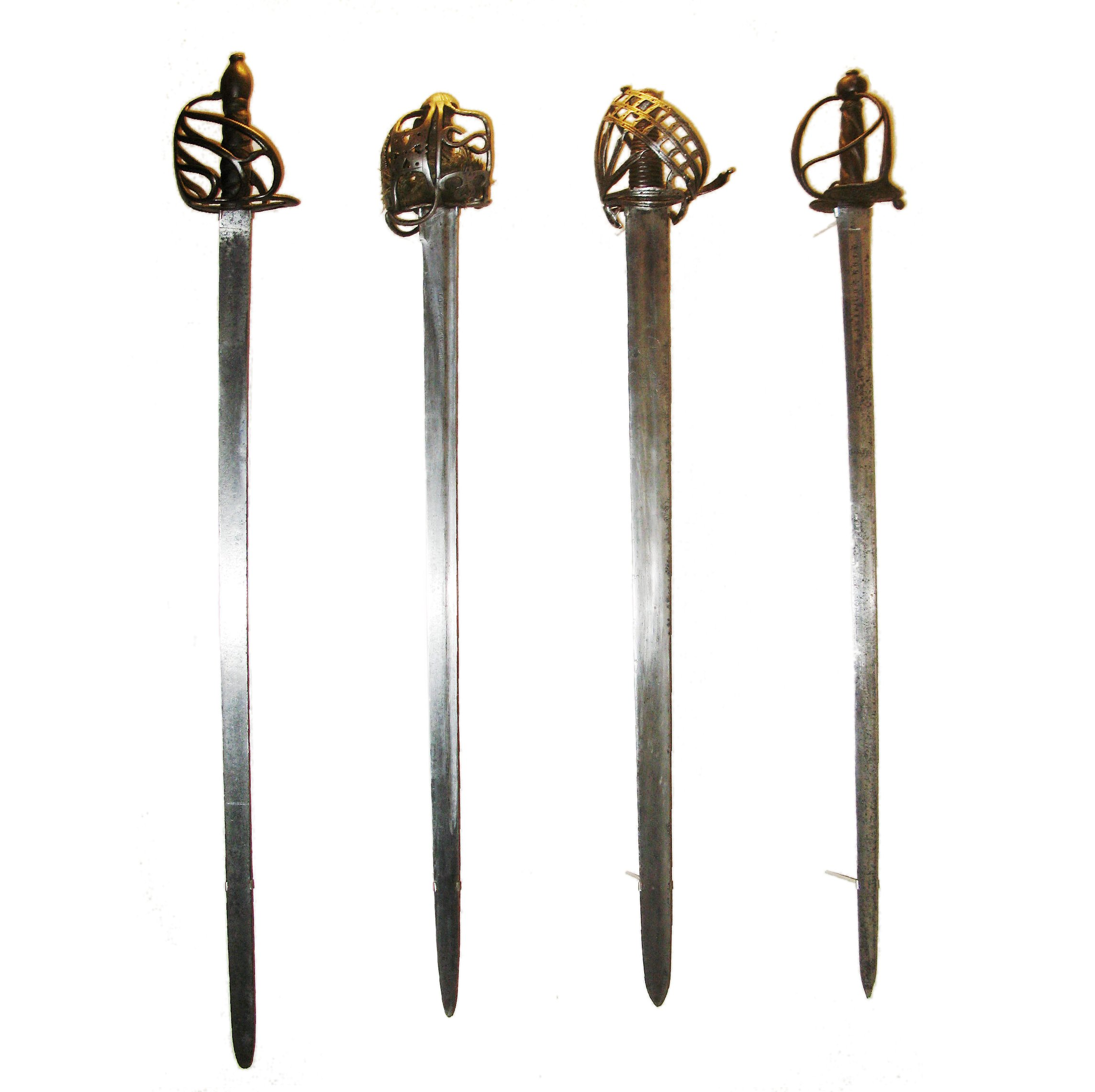 Four swords of the late 17th/early 18th century. From left to right: an English heavy cavalry sword a Scottish broadsword (claymore) a Venitian Schiavona a Swiss cavalry sword